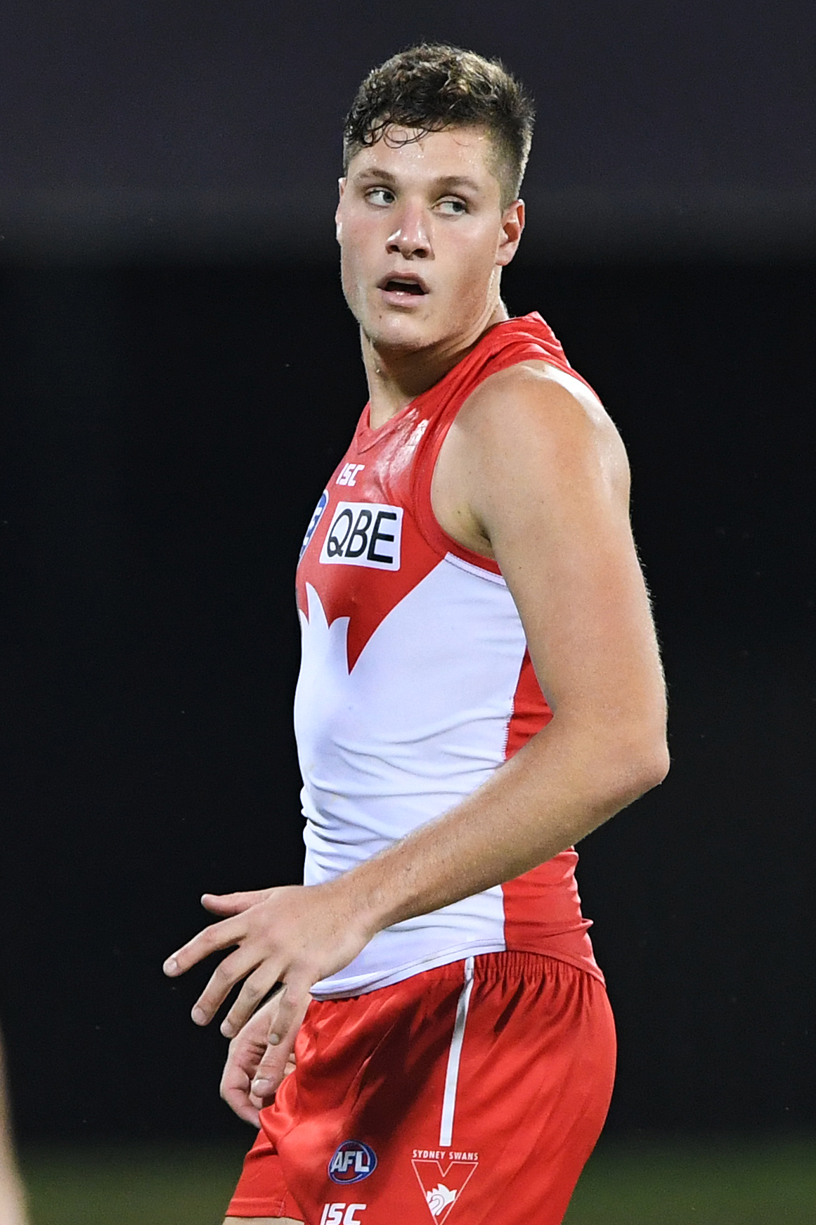 Hayden McLean of Sydney during the 2019 NEAFL round 14 match between NT Thunder and Sydney at TIO Stadium on Saturday, 6 July 2019 in Darwin, Northern Territory.